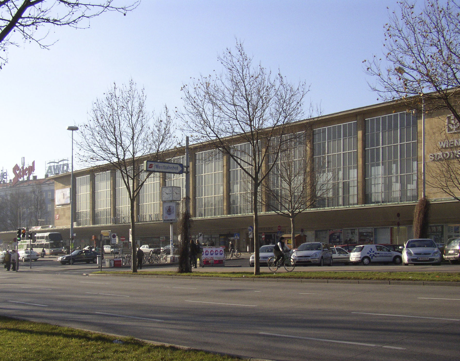 Vienna's Westbahnhof (i.e. Western Station) by architects Hartiger & Wöhnhart and Europaplatz, as seen from Guertel